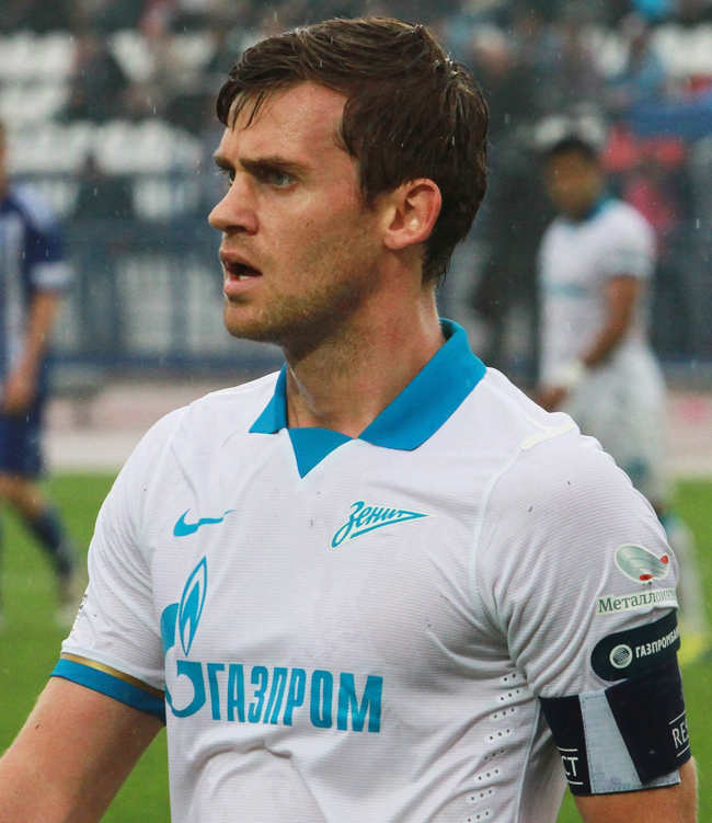 Nicolas Lombaerts with FC Zenit St. Petersburg.